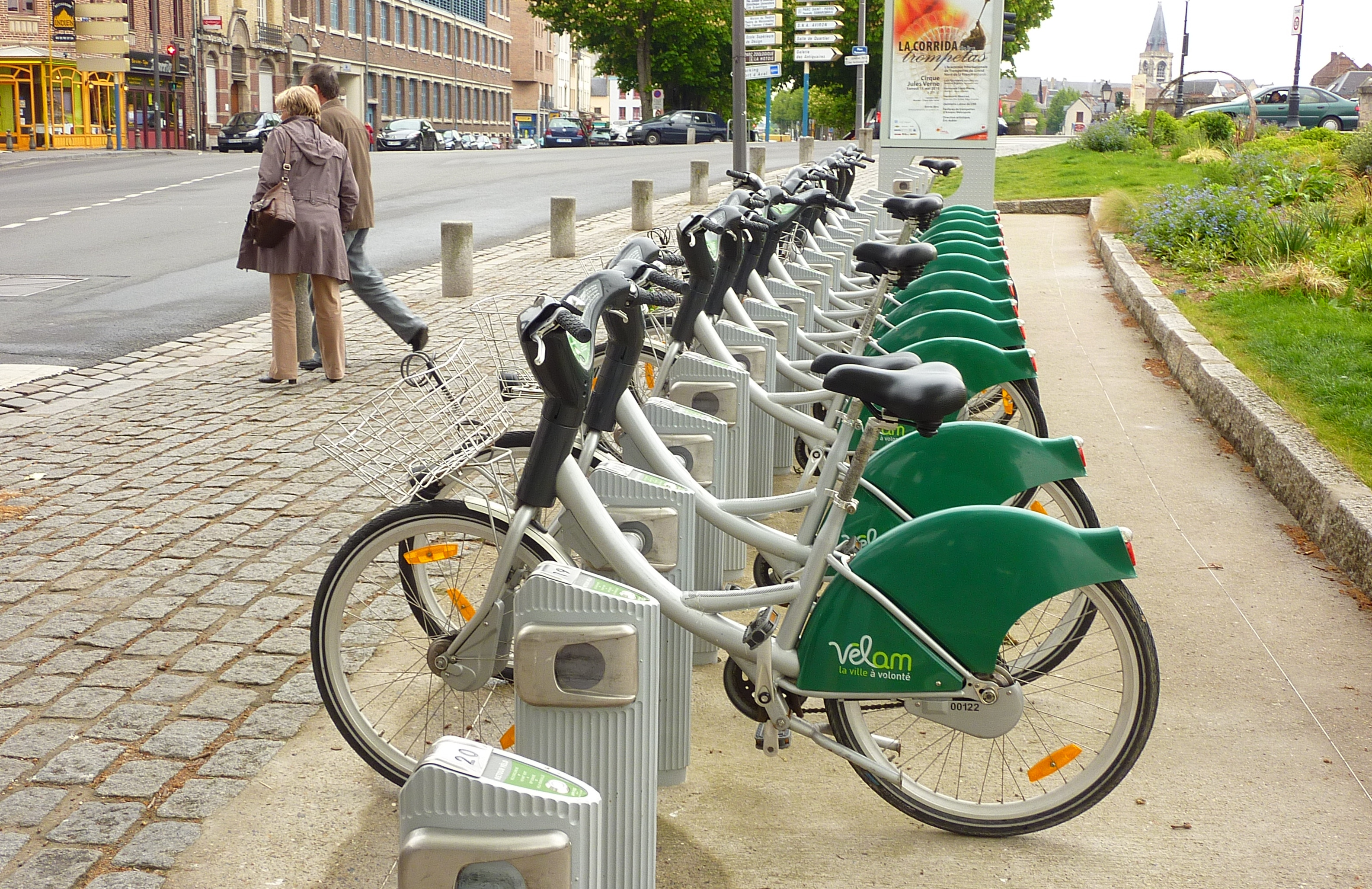 Vélam community bicycle system in Amiens, France.